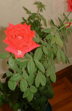 Mister Lincoln Hybrid Tea